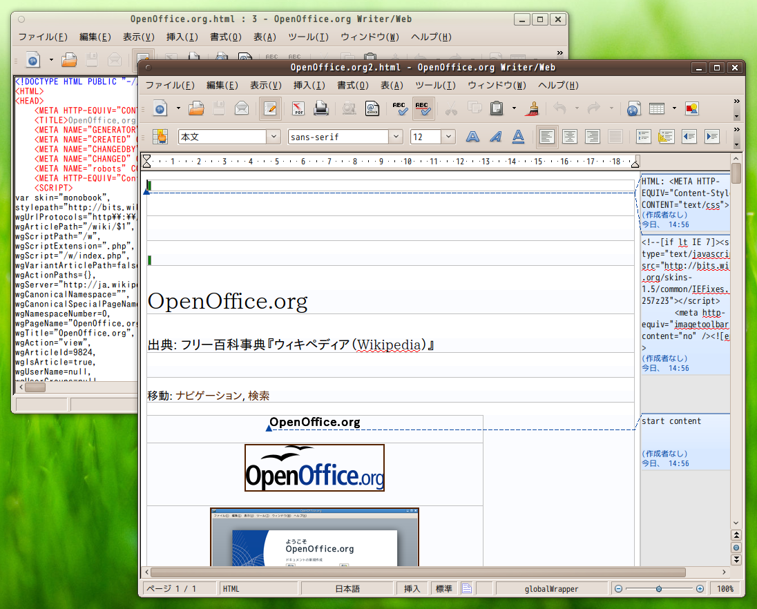 A screenshot showing Writer/Web.